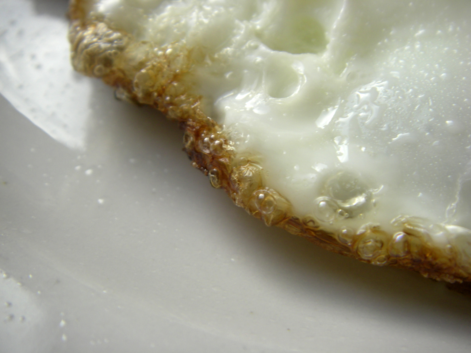 Extreme closeup of the white of a fried egg.